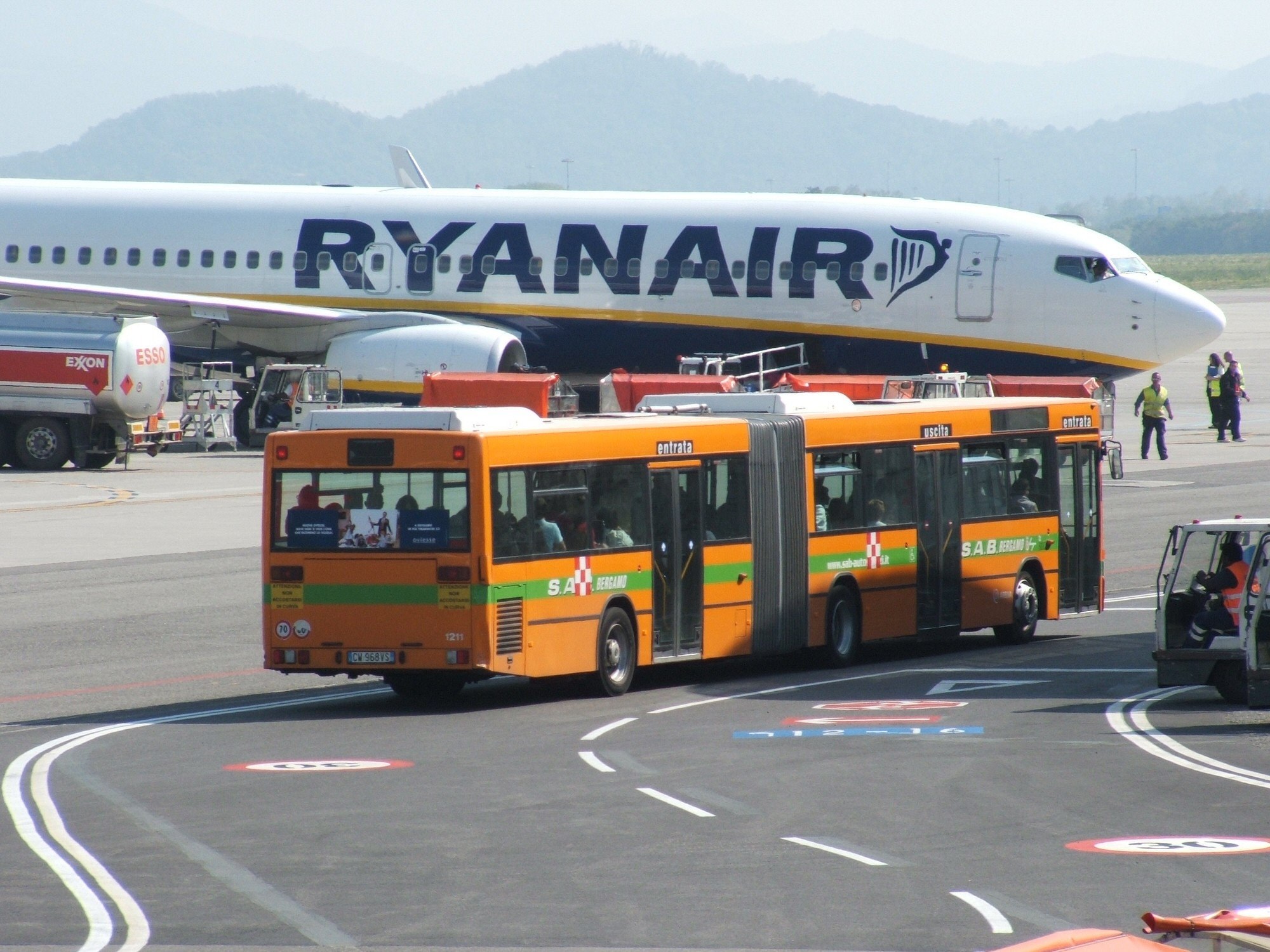 Bus and Boeing 737 - Ryanair - Bergamo-Orio al Serio airport